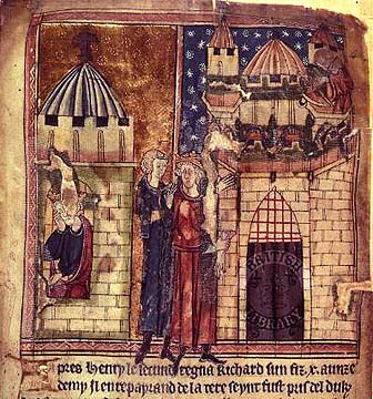 Richard I imprisoned by Duke Leopold of Austria and being shot at Chalus castle